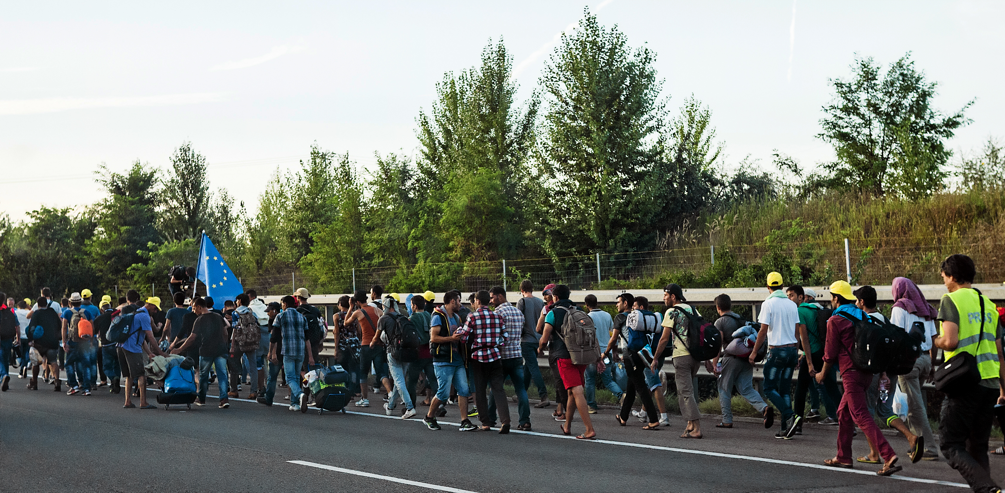 Refugees on the Hungarian M1 highway on their march towards the Austrian border